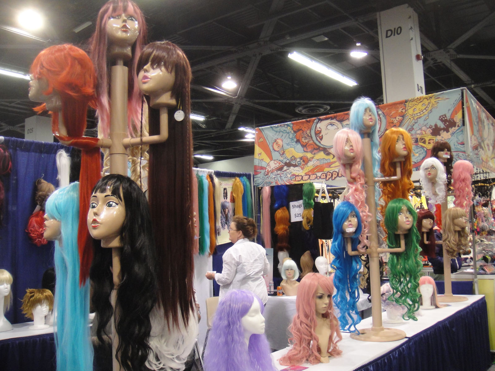 photo 2012 Pop Culture Geek taken by Doug Kline If you're interested in higher resolution versions of my images, contact me via my profile page.